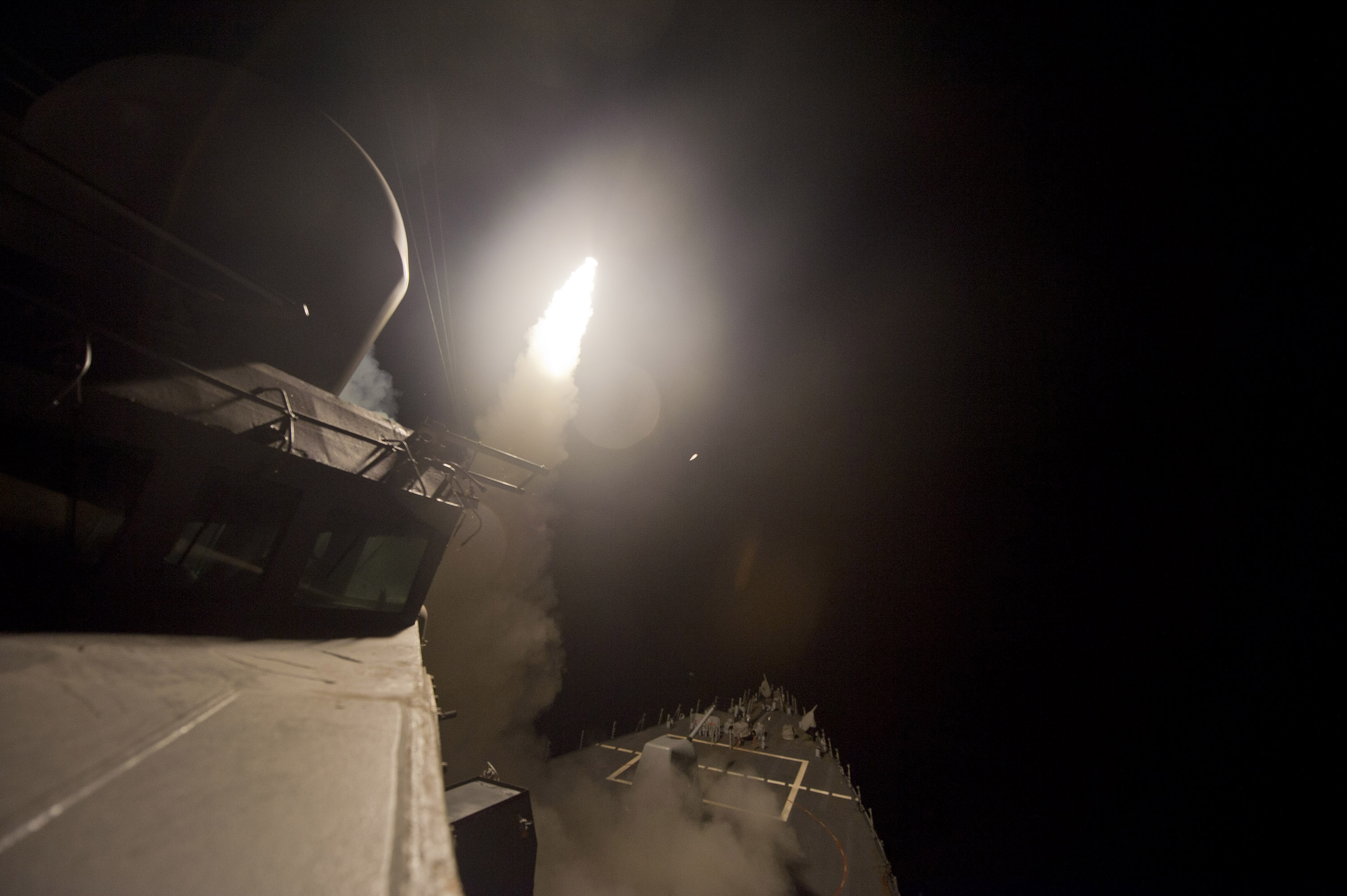 The guided-missile destroyer USS Arleigh Burke (DDG 51) launches Tomahawk cruise missiles. Arleigh Burke is deployed in the U.S. 5th Fleet area of responsibility supporting maritime security operations and theater security cooperation efforts.